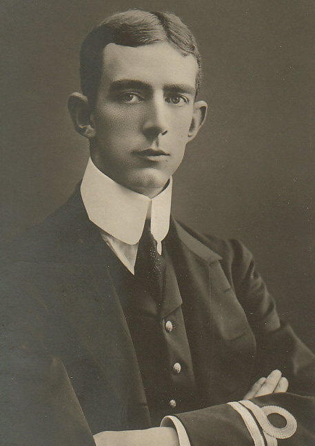 Prince Wilhelm of Sweden and Norway in 1911.